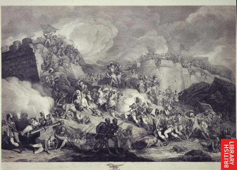 The storming of Seringapatam," an engraving by John Vendramini, 1802